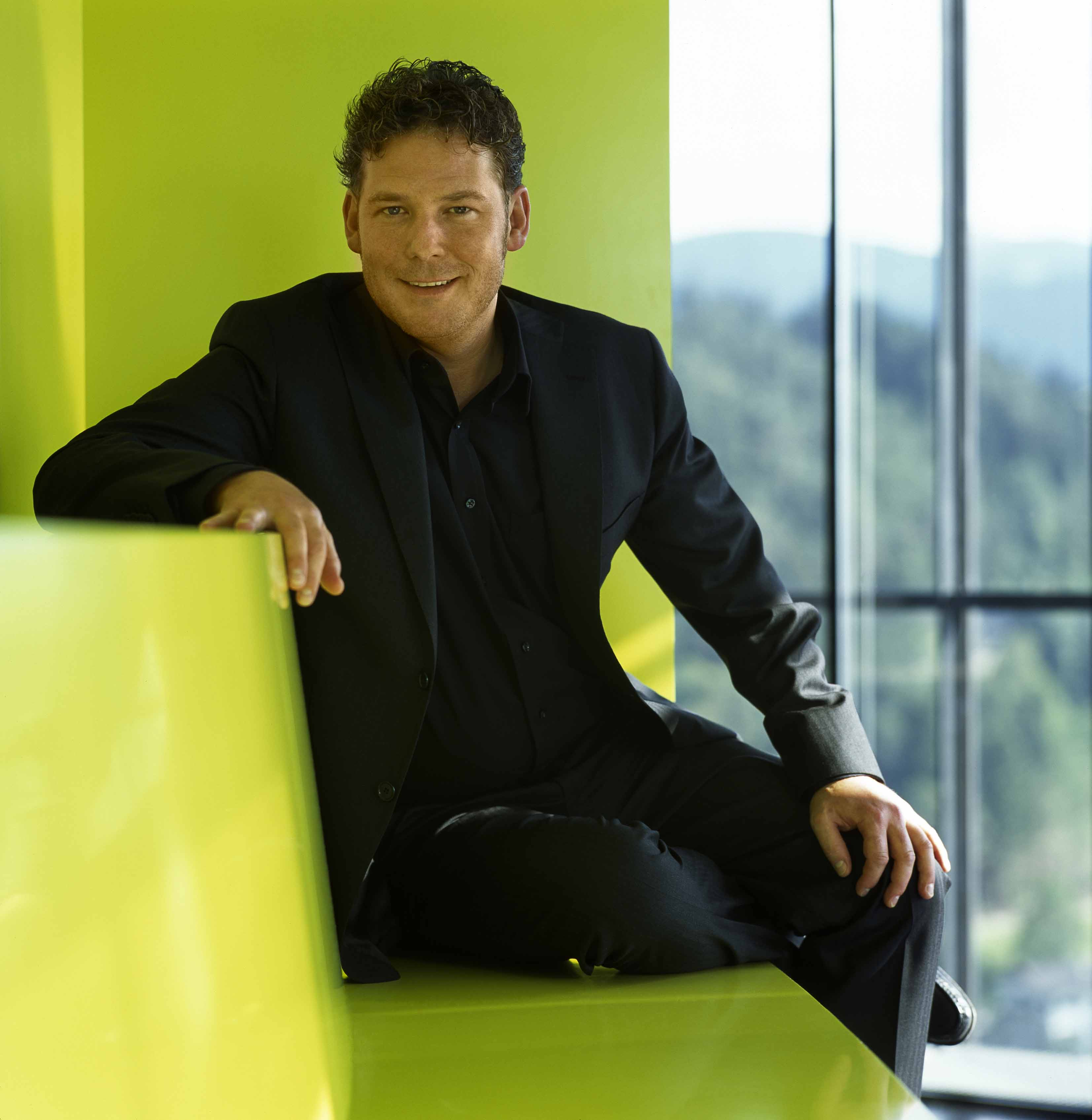 Photo by Johannes Ifkovits